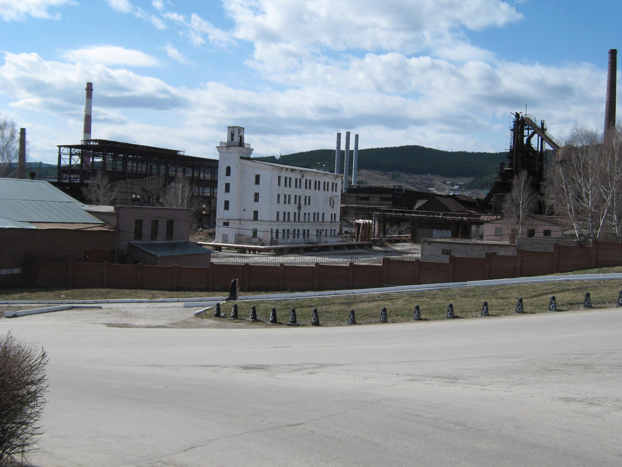 Beloretsk Metallurgical Plant (not all)